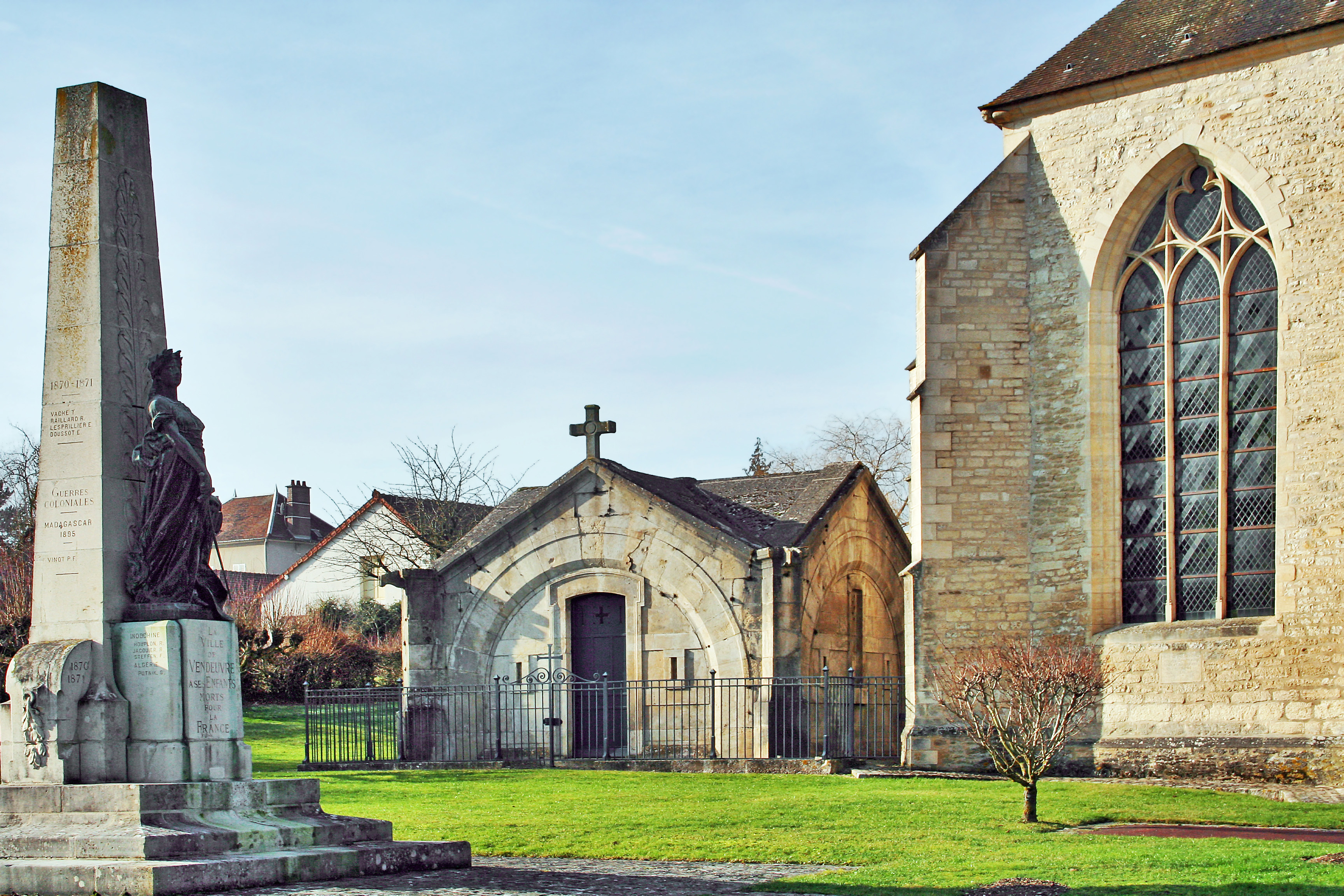 Chapelle funéraire des familles Pavée de Vendeuvre et Bourlon de Sarty, et monument aux morts, derrière l'église de Vendeuvre-sur-Barse